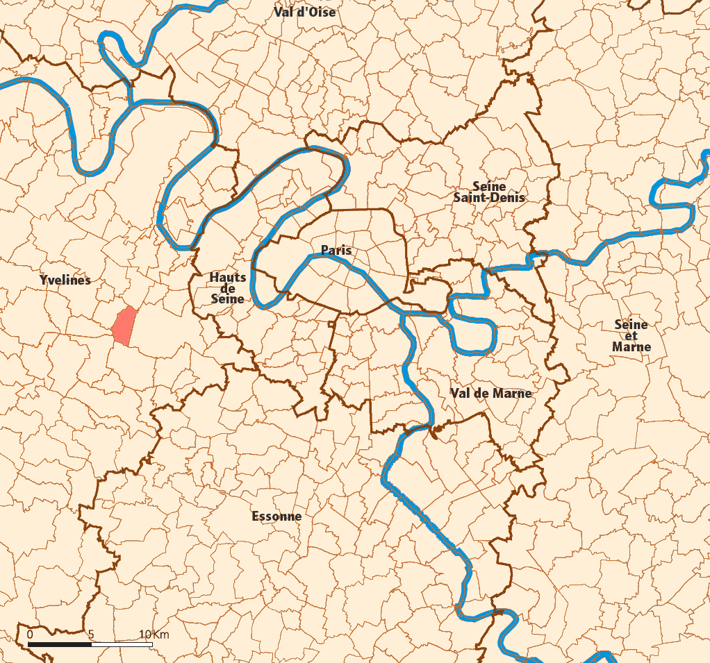 Created map myself.